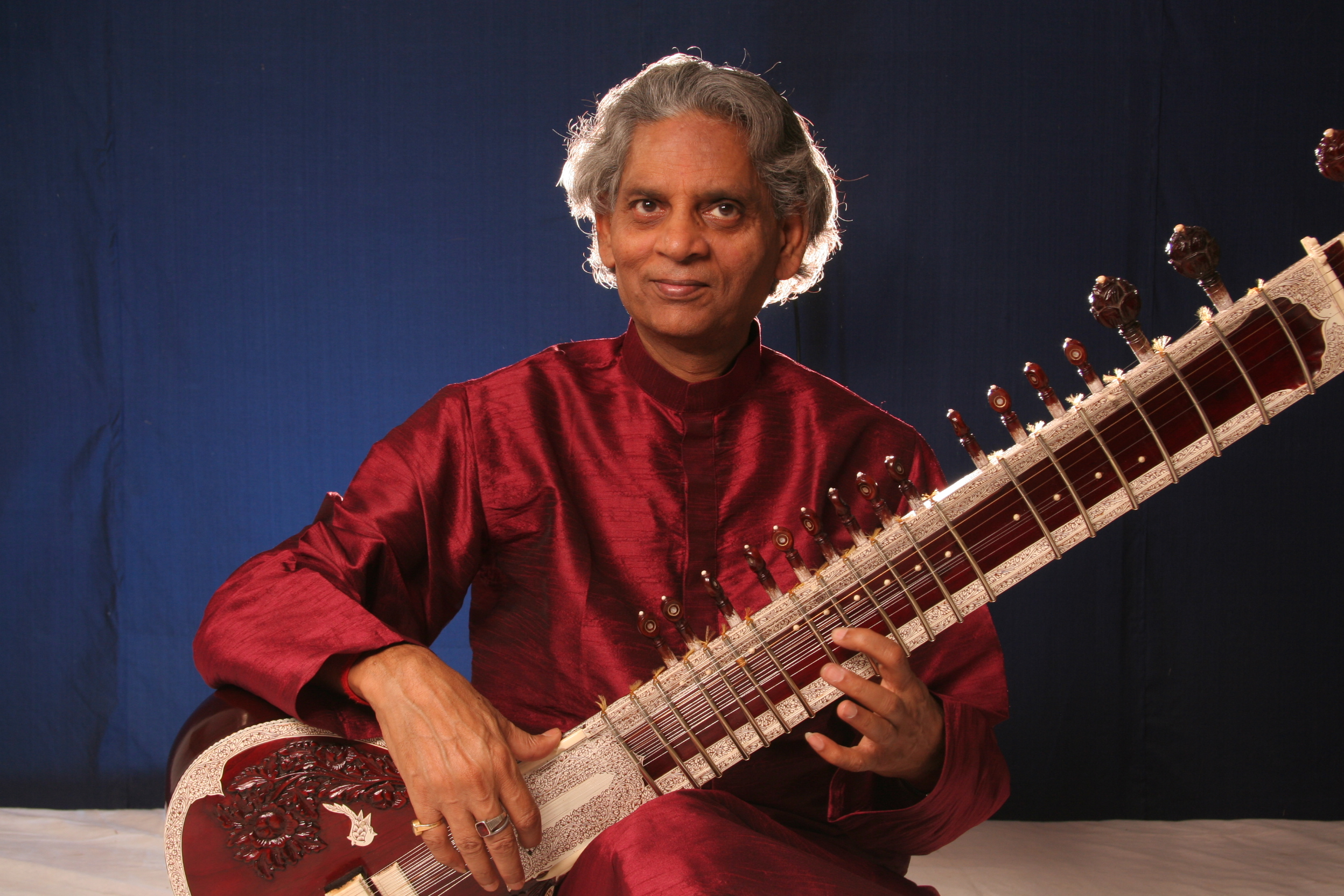 Pandit Shivnath Mishra is an Indian sitarist and composer. He is an exponent of the Benares Gharana school of Hindustani classical music. He was formerly a lecturer and the Head of the Music Department at the Sampurnanand Sanskrit University, Varanasi